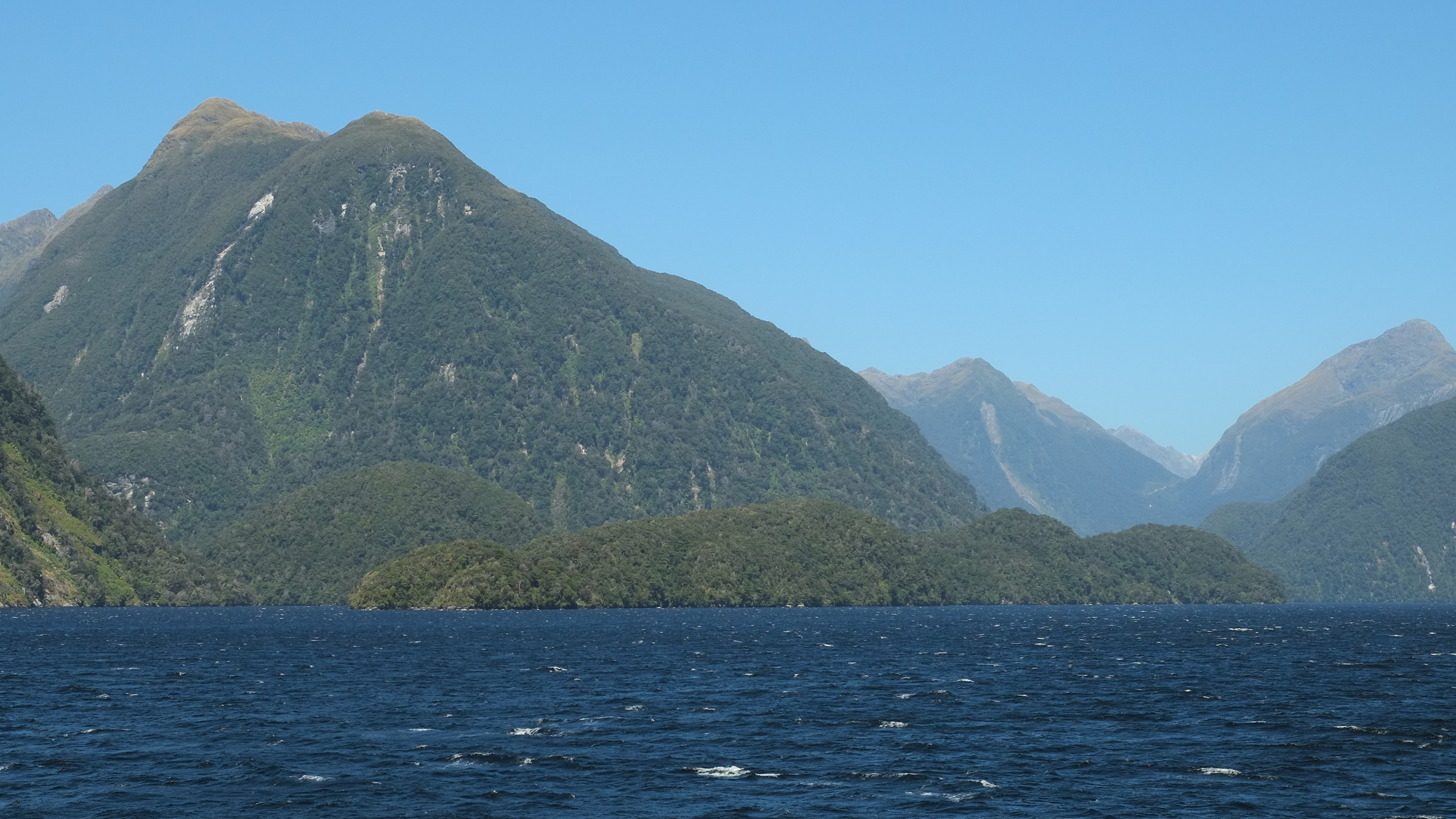 Elizabeth Island in Doubtful Sound, with Elizabeth Valley behind it on the left